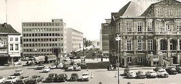 The Market square in Maastricht, the Netherlands, early 1960s. All the modern buildings have been demolished since.